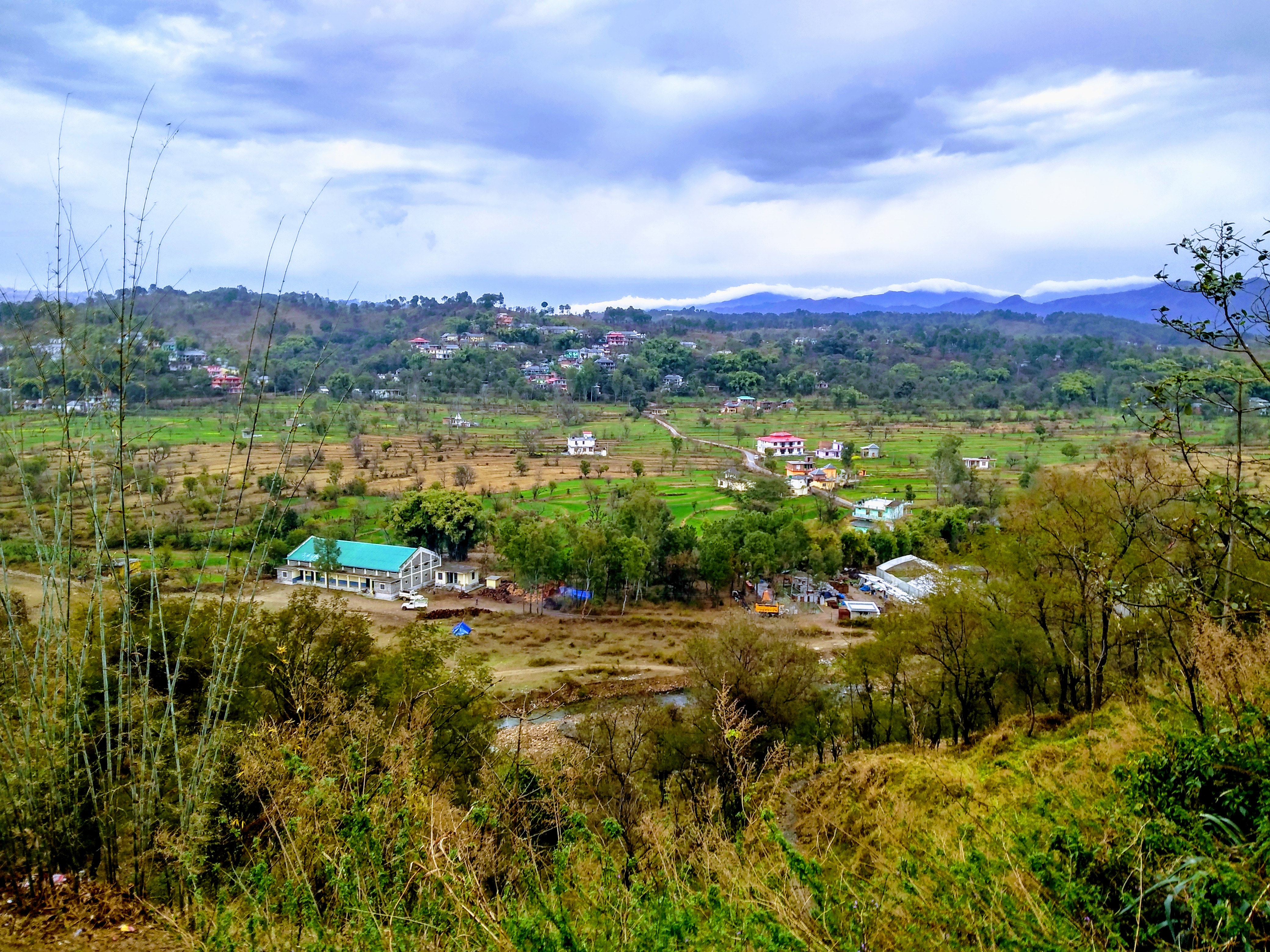 Village Dhirar, Hamirpur, Himachal Pradesh, India